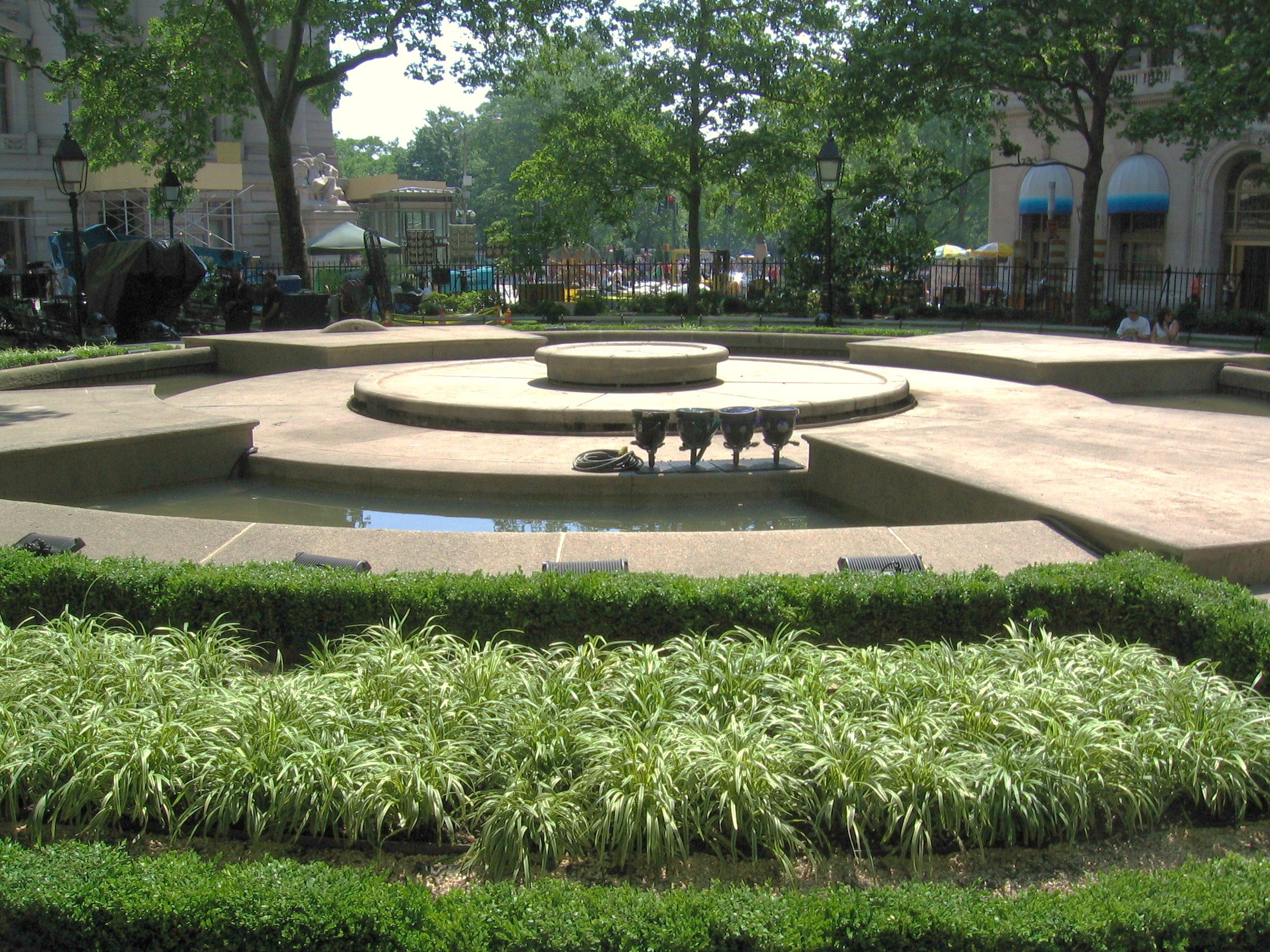 Fountain built as a set for the film The Sorcerer's Apprentice at Bowling Green park in Downtown Manhattan, New York, New York. Filming took place in the early morning and at night. In the meantime, the park was open. This picture taken looking southwest from one of the benches surrounding the fountain.